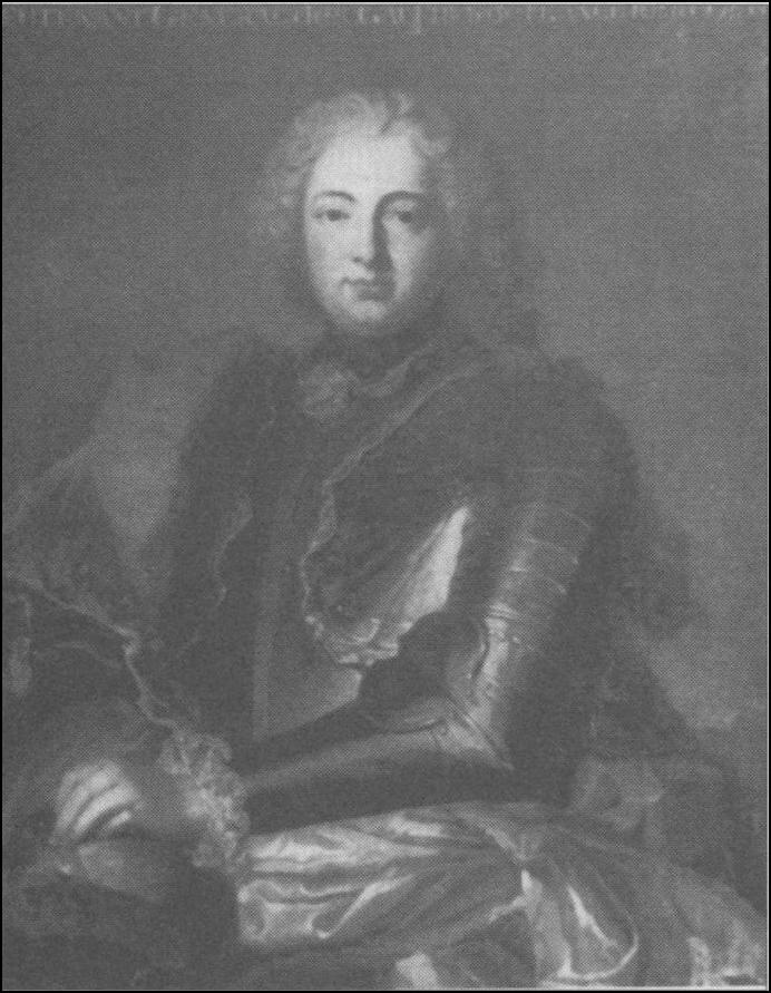 Admiral_Jean_Baptiste_Louis_Frederic_De_La_Rochefoucauld,_Duc_d'Anville.jpg